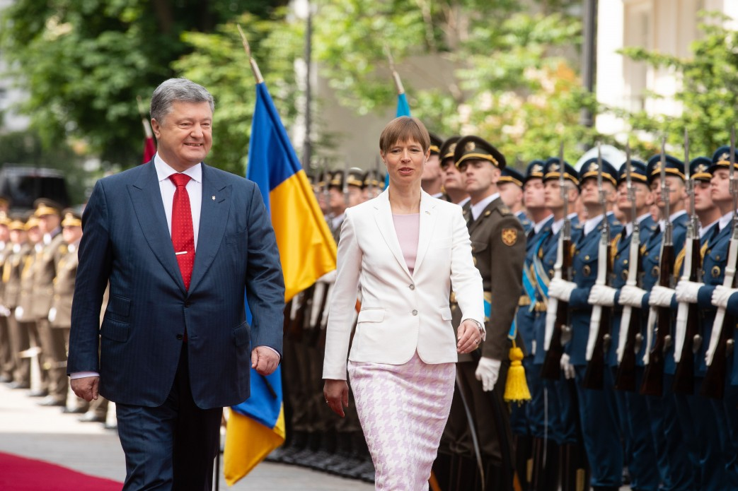 An official ceremony of the meeting between President of Ukraine Petro Poroshenko and President of Estonia Kersti Kaljulaid, who is on an official visit to Ukraine, was held in the square in front of the Presidential Administration.